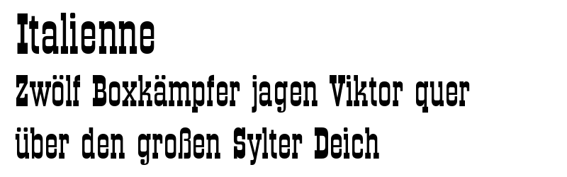 german pangram in typeface Italienne